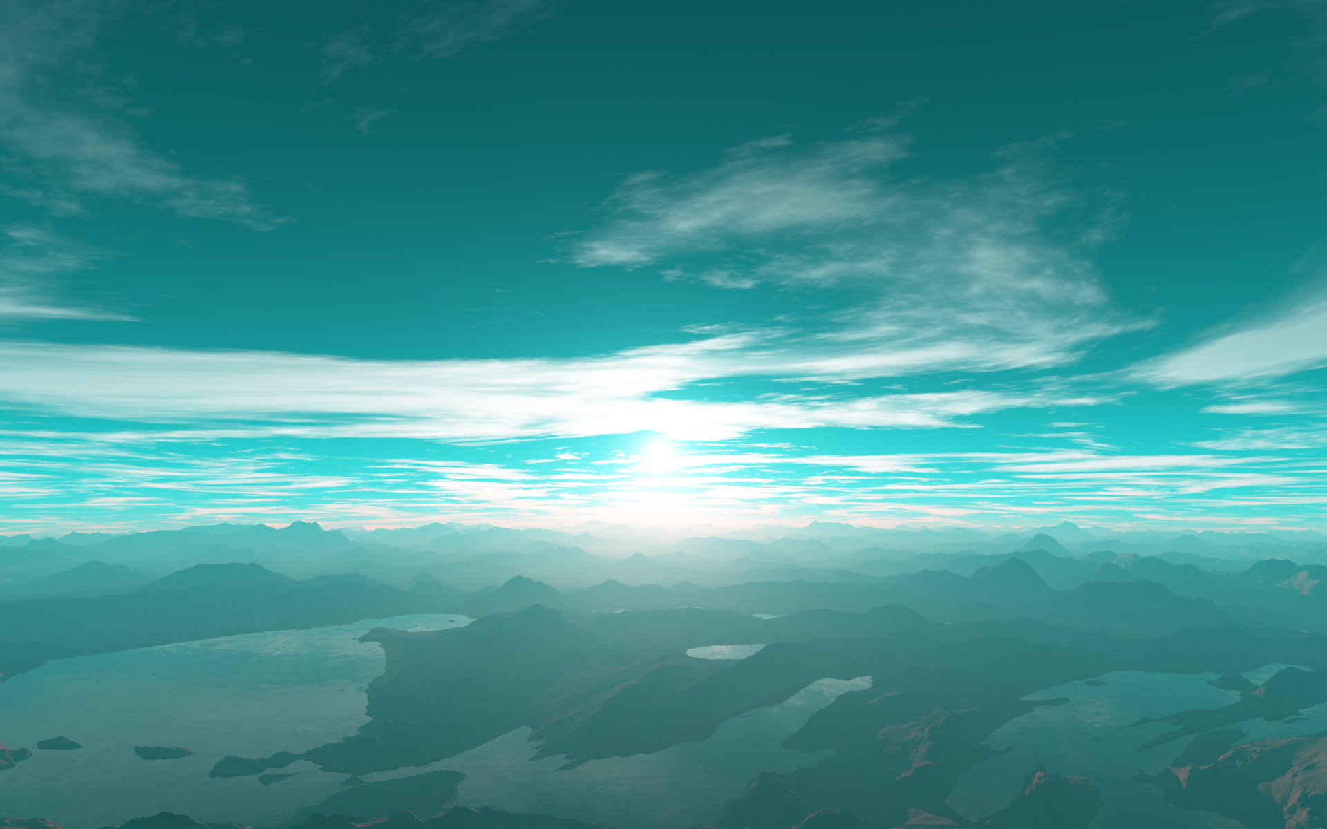 Sunrise on the planet Kepler-22b, the artist's eyes